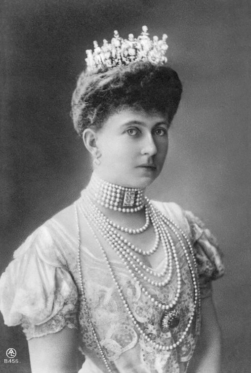 Portrait of Sophia of Prussia (1870-1932), Queen of Greece